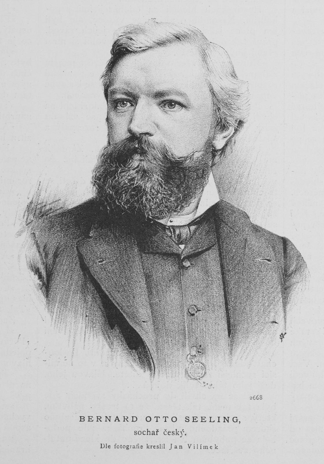 Portrait of Bernard Otto Seeling (1850 - 1895), Czech sculptor.